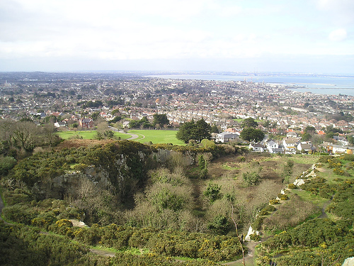 Found at .